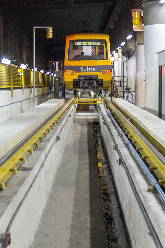 Line D Buenos Aires Underground Alstom trains at Congreso de Tucuman workshop